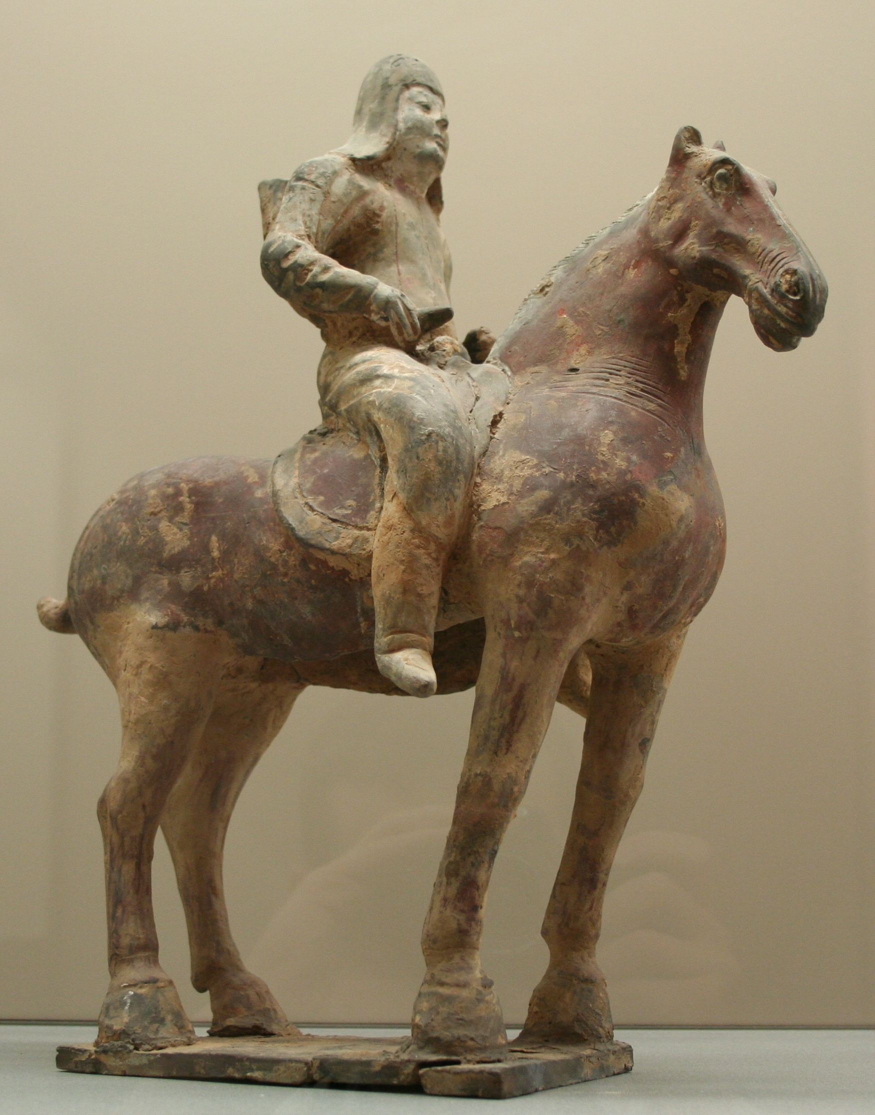 Horseman Bearing a Horn (Qima Yong). Terra Cotta. Northern Wei Dynasty (386 – 534). Cernuschi Museum, Paris, France.